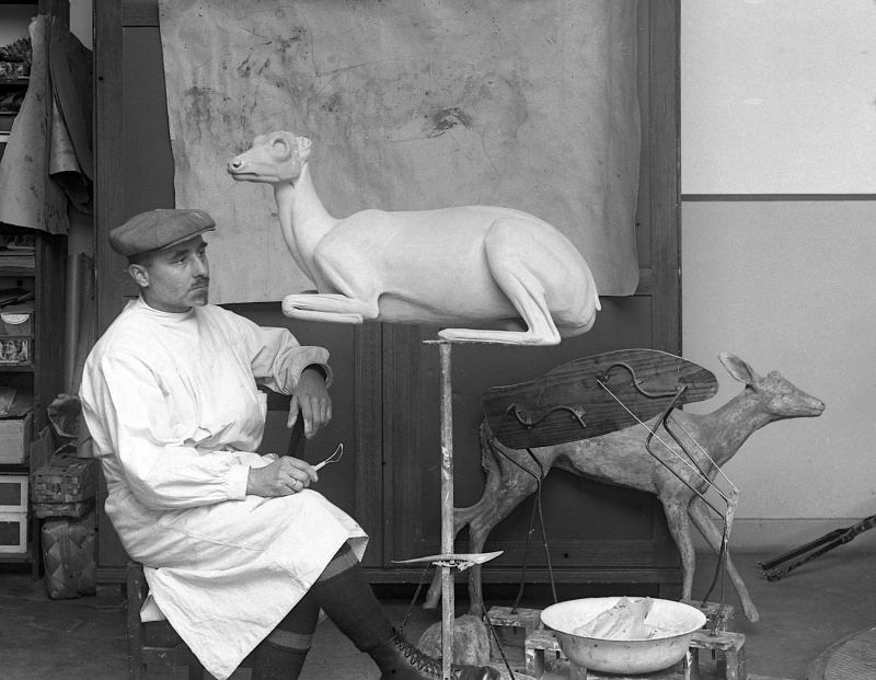 Taxidermist Joseph Burger, Museum Wiesbaden